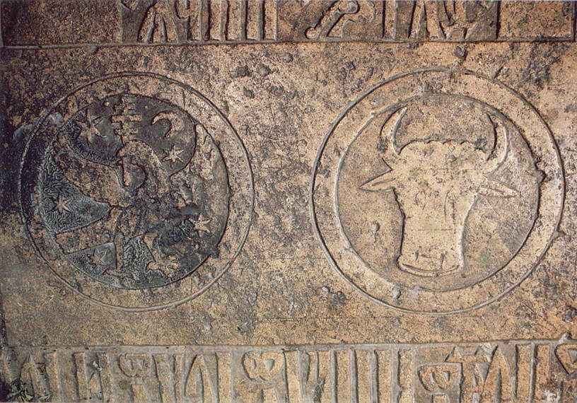 Coat of Arms of Moldavia 1757 from Putna Monastery. It includes the Coat of Arms of Wallachia.